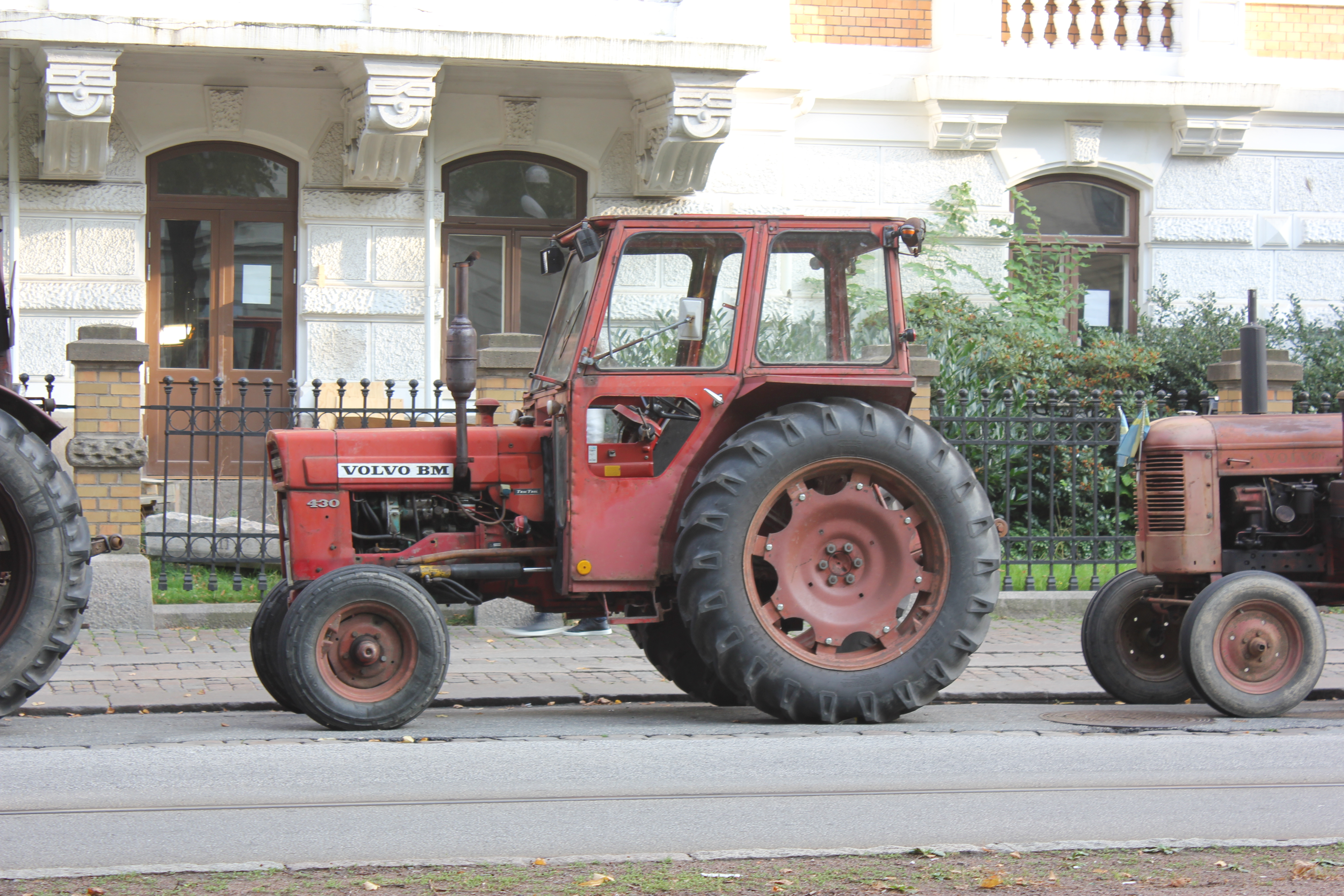 Gothenburg - Volvo BM tractor